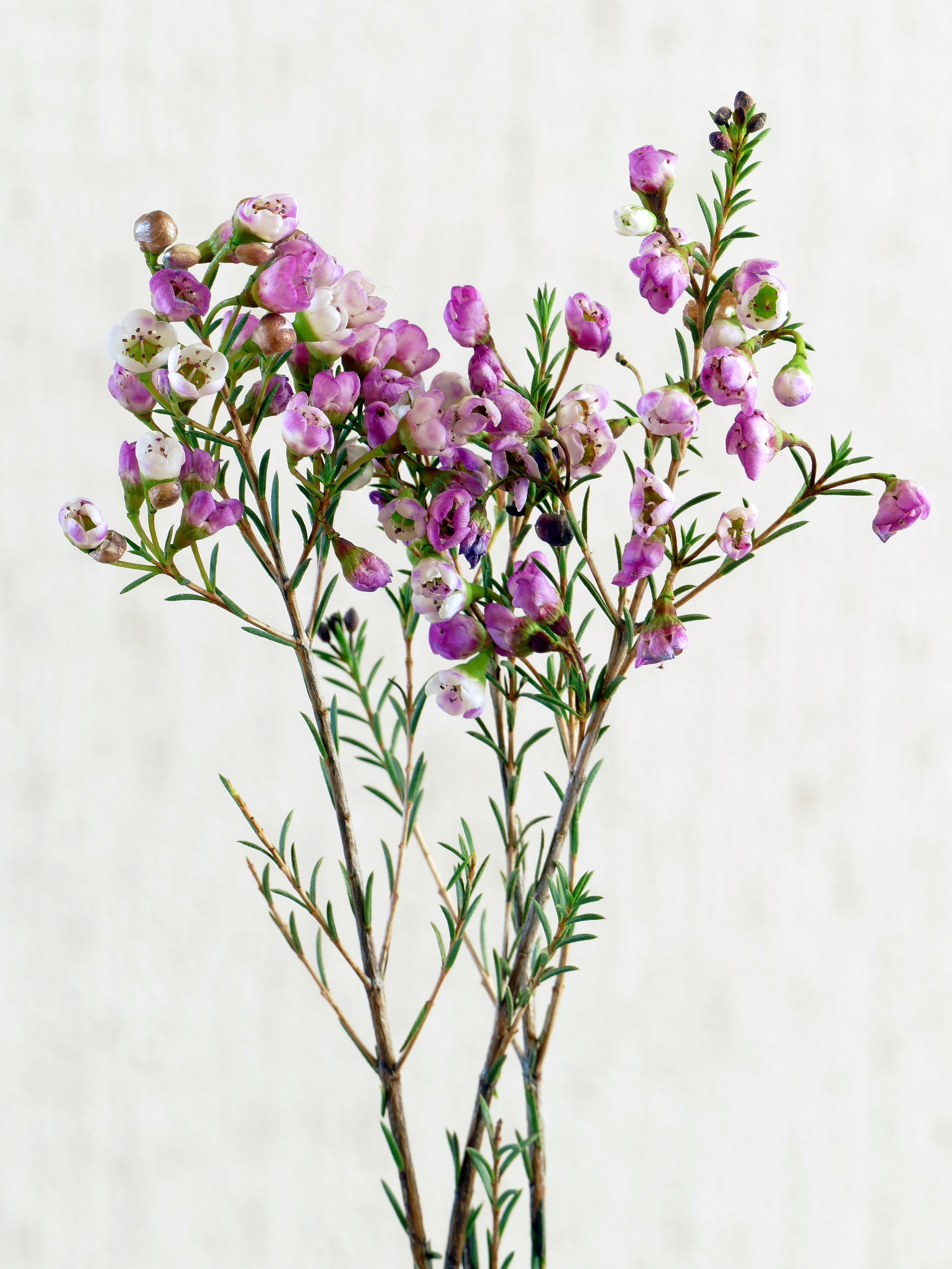 Chamelaucium uncinatum Schauer Flowering cultivar of Geraldton waxflower.